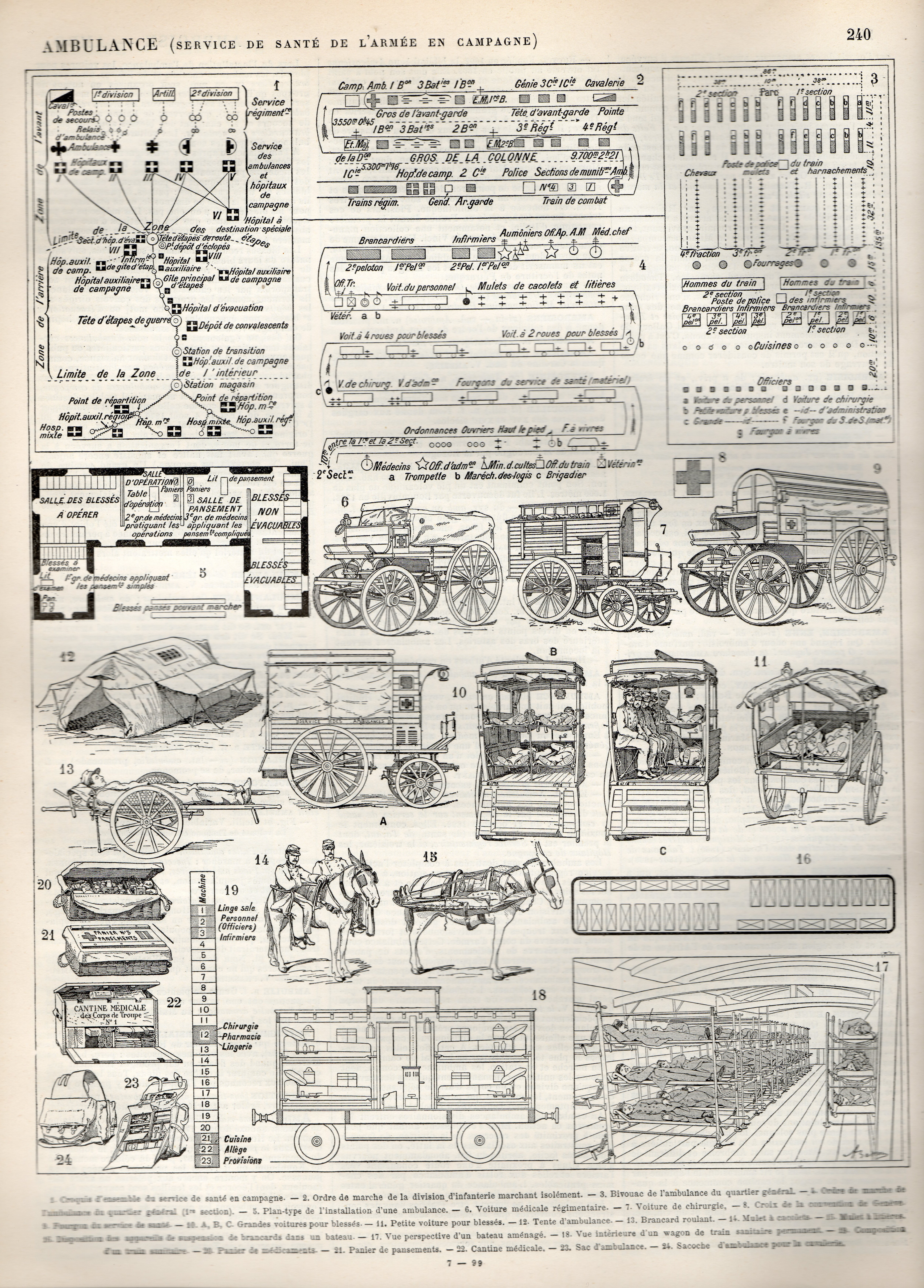 Plate from the "Nouveau Larousse illustré" (New illustrated Dictionnary) about military ambulance. published 1897-1904